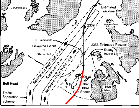 Track line of the Exxon Valdez with red line indicating where it would have gone had the third mate not increased the rate of turn.